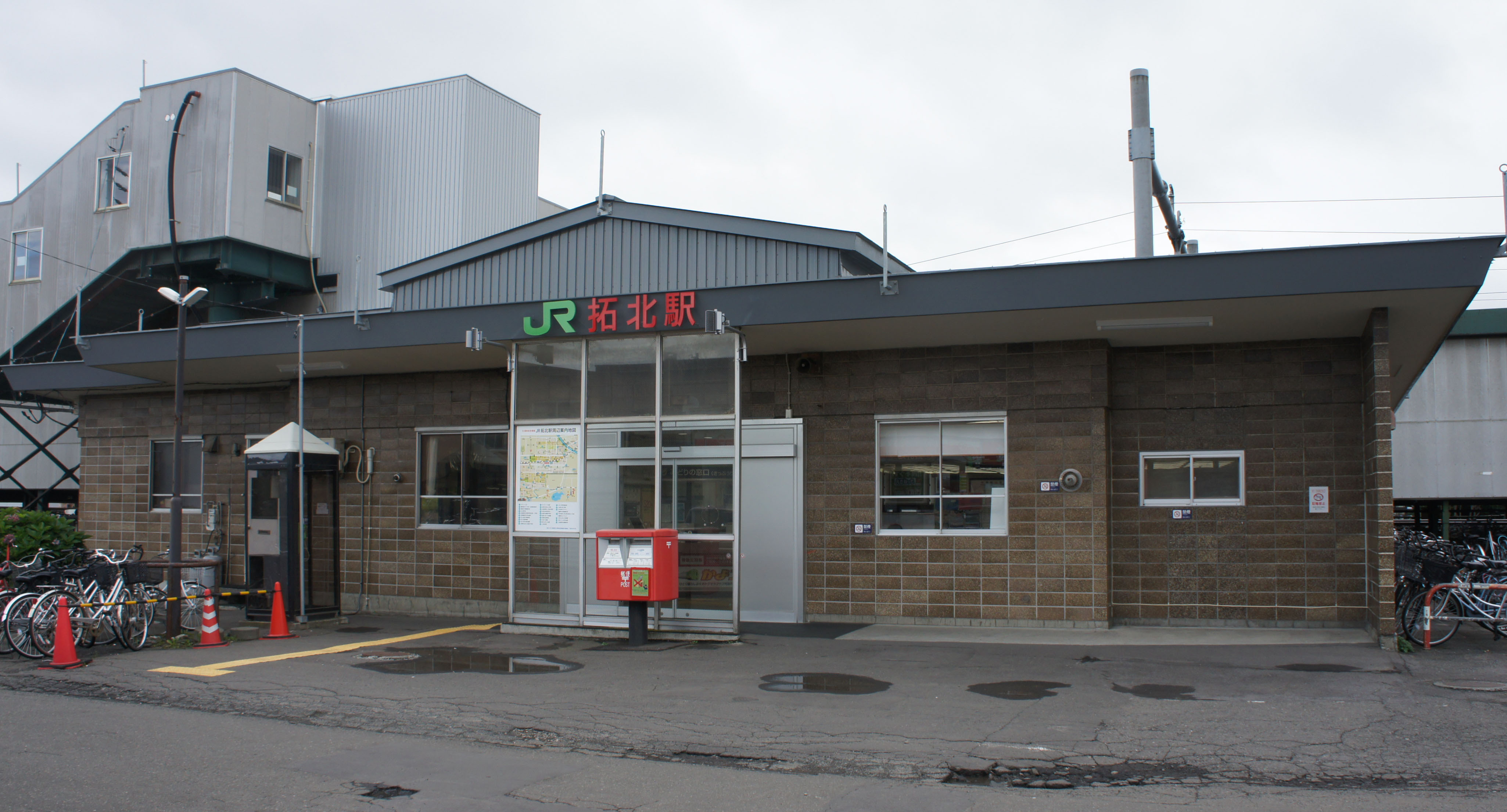 North Exit Overall of JR Sassho-Line Takuhoku Station